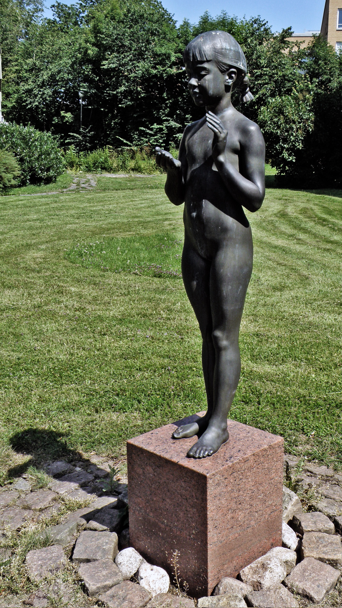 Mimi, bronze sculpture, Peter Linde, 1996. Kyrkbyn, Hisingen, Gothenburg.